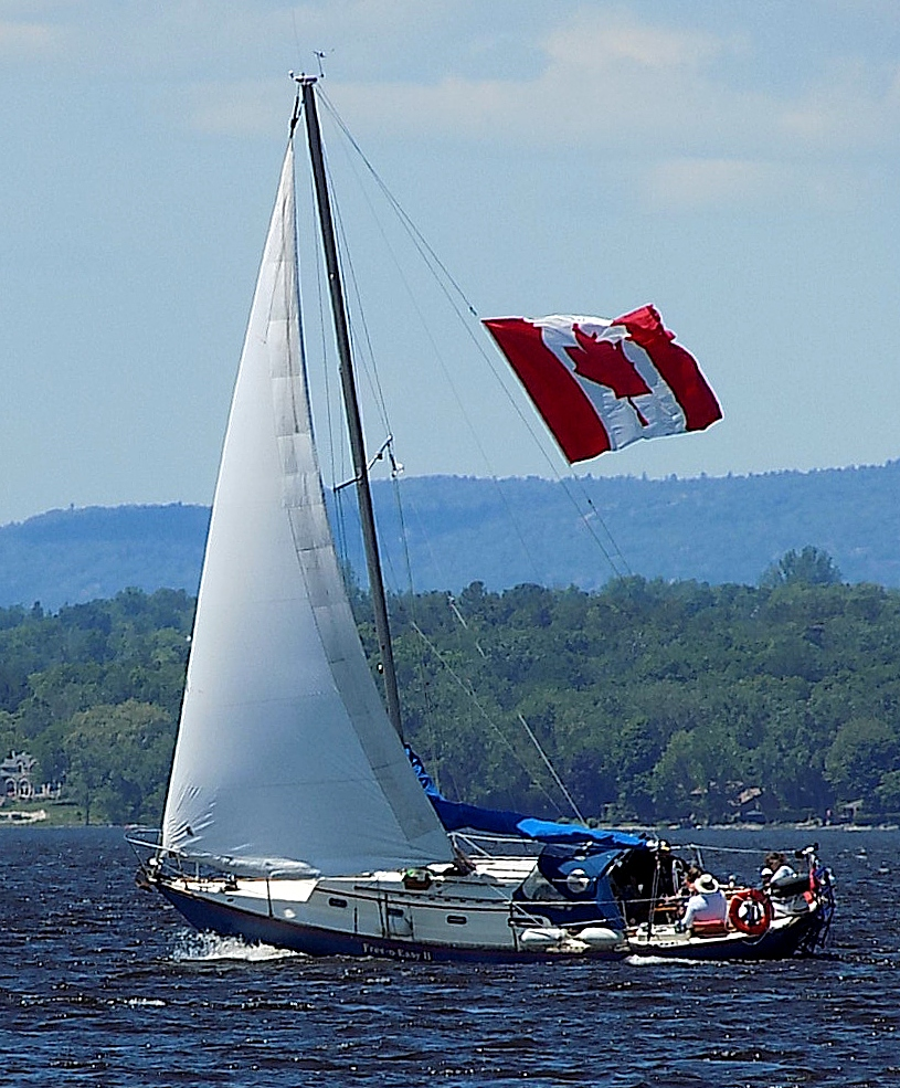 A C&C Corvette 31 sailboat named Free n Easy II.